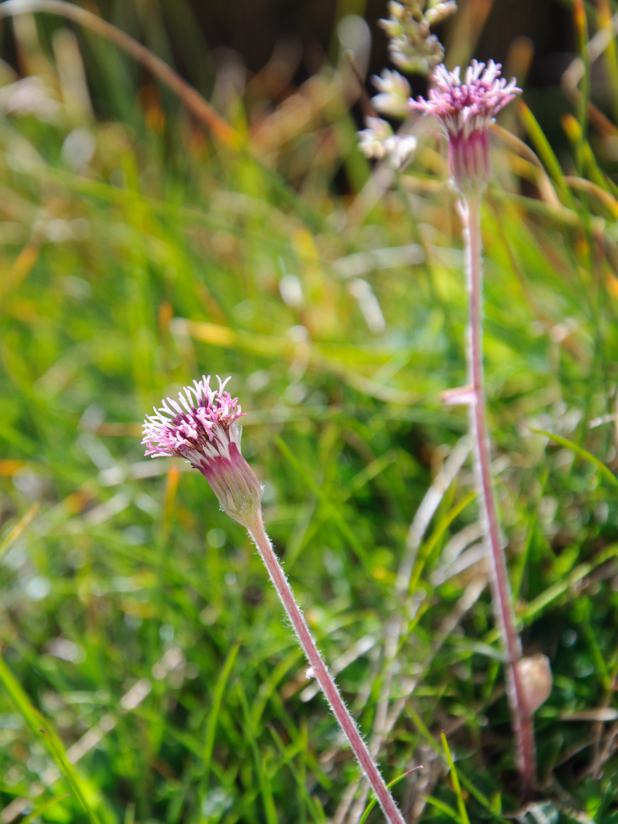 Homogyne discolor in Slovenia